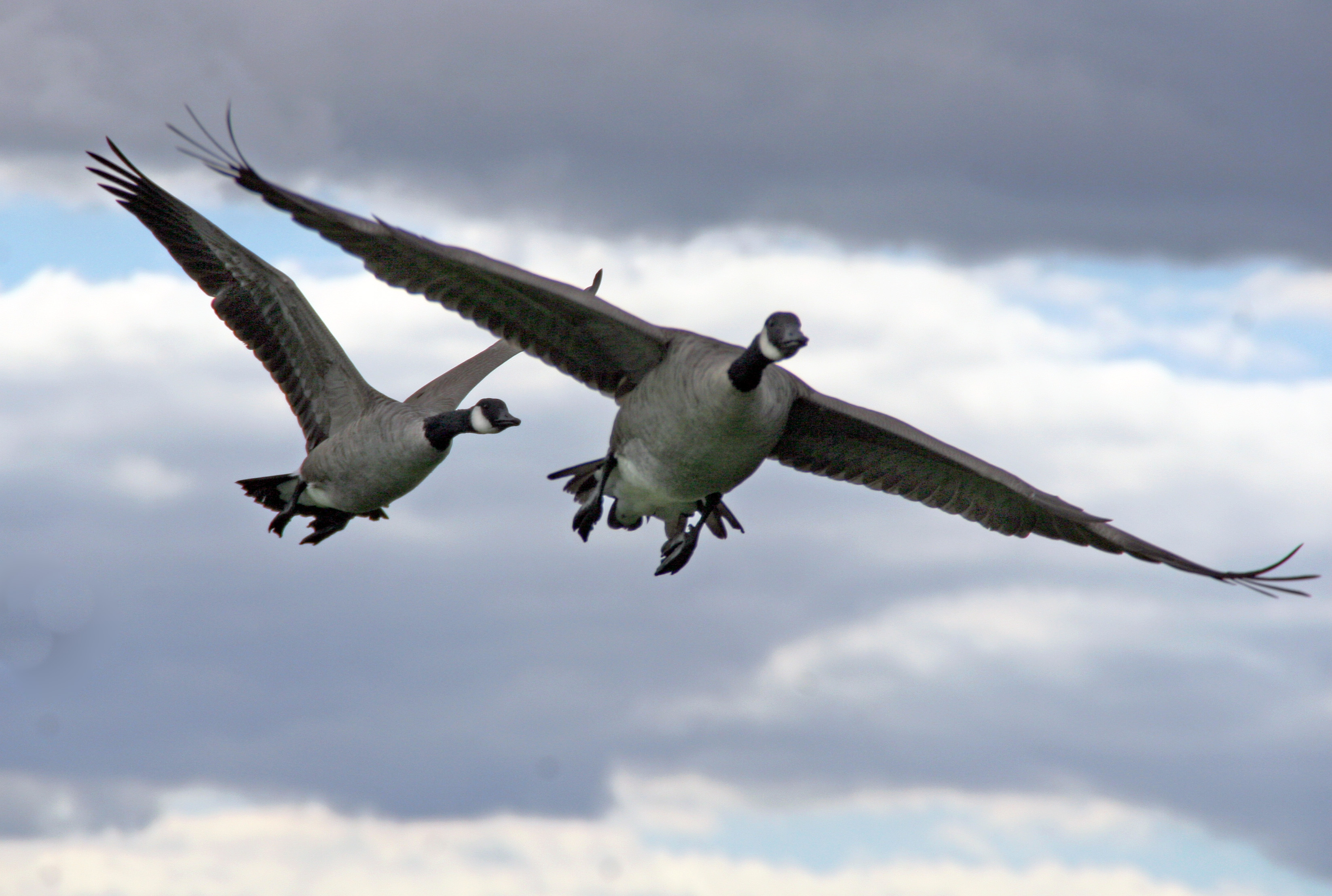 Canada Geese (Branta canadensis) in Great Meadows National Wildlife Refuge, near Concord, Massachusetts, USA. – This is the first in a series of geese in flight. They are the first pictures I've ever tried of birds on the wing, and as you will see some are more successful than others. Still, it's a start. – Flight is the process by which an object moves either through an atmosphere (especially the air) or beyond it (as in the case of spaceflight) by generating lift or propulsive thrust, or aerostatically using buoyancy, or by simple ballistic movement.